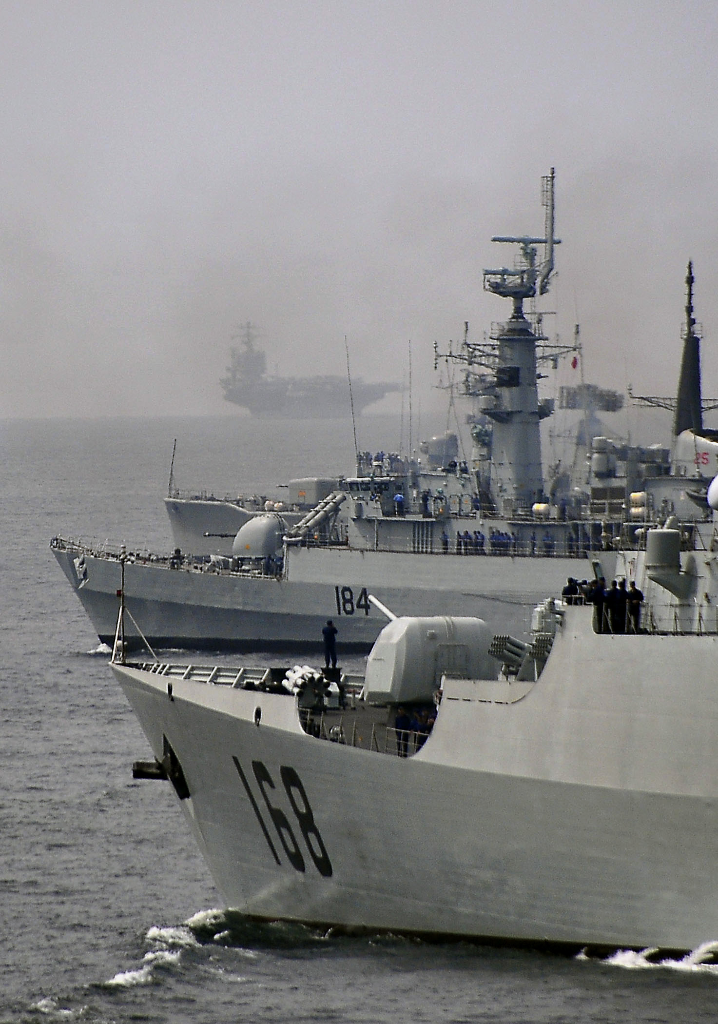 INDIAN OCEAN (March 11, 2009) The aircraft Carrier USS Theodore Roosevelt (CVN 71), background, joins a multinational battle group formation including the People's Republic of China Navy multirole missile destroyer Guangzhou (DDG 168)and the Pakistan Navy frigate PNS Badr (D 184). Roosevelt, the guided-missile cruiser USS Lake Champlain (CG 57), and the U.S. Coast Guard high-endurance cutter Boutwell (WHEC 719) are among ships from seven other countries participating in the multinational naval exercise AMAN, an Urdu word meaning peace. AMAN 09 is a Pakistan Navy-hosted multi-lateral maritime exercise designed to develop and improve response to tactics, techniques, and procedures with a focus on the global war on terrorism. Lake Champlain and Boutwell are deployed as part of the Boxer Amphibious Readiness Group supporting Maritime Security Operations in the U.S. 5th Fleet area of responsibility. (U.S. Navy photo by Mass Communication Specialist 2nd Class Daniel Barker/Released)